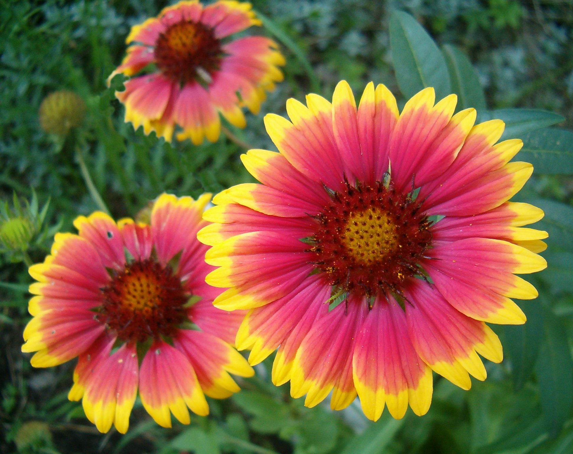 Gaillardia aristata